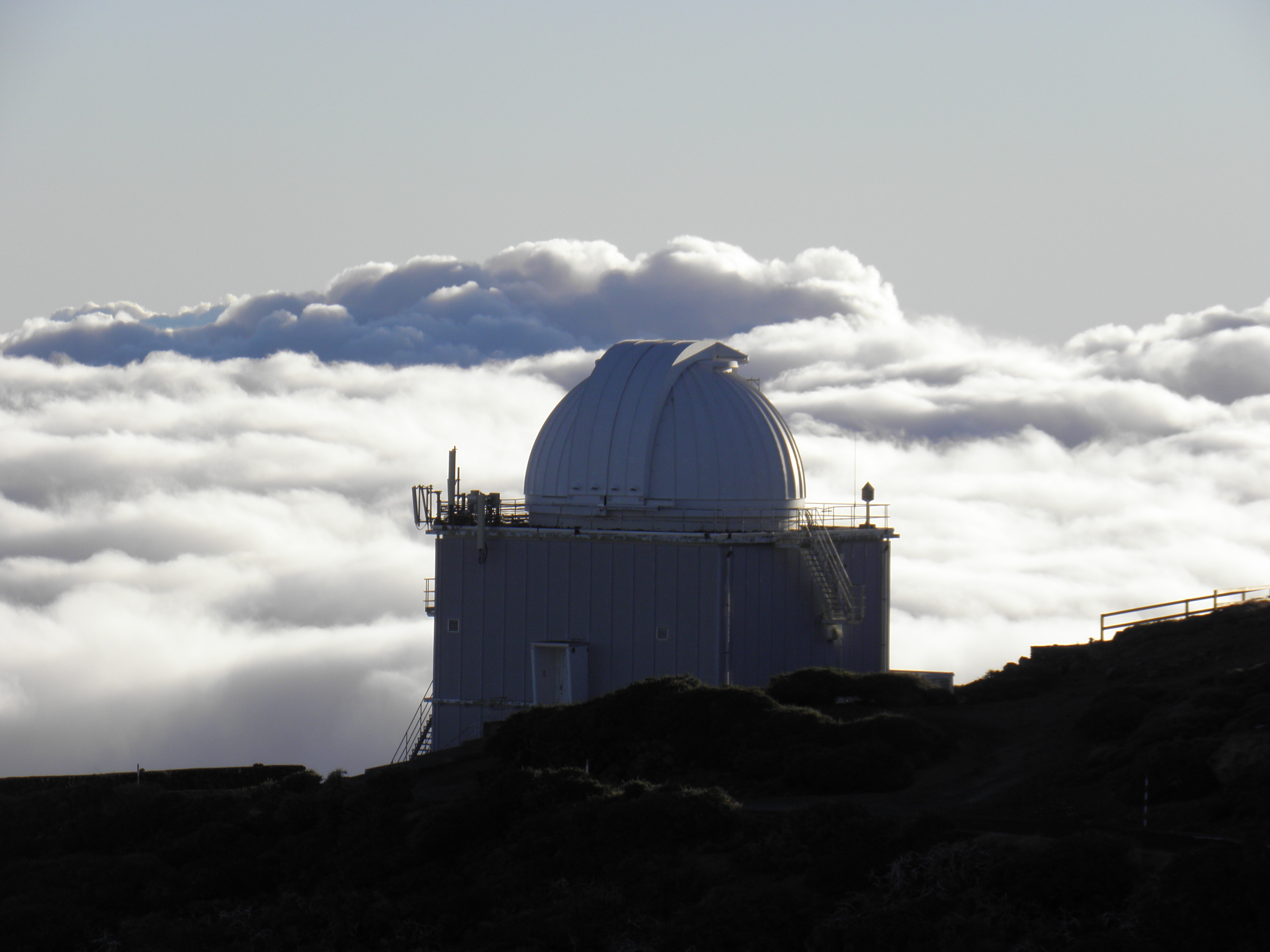 The Jacobus Kapteyn Telescope against a background of clouds, near the time of sunrise.